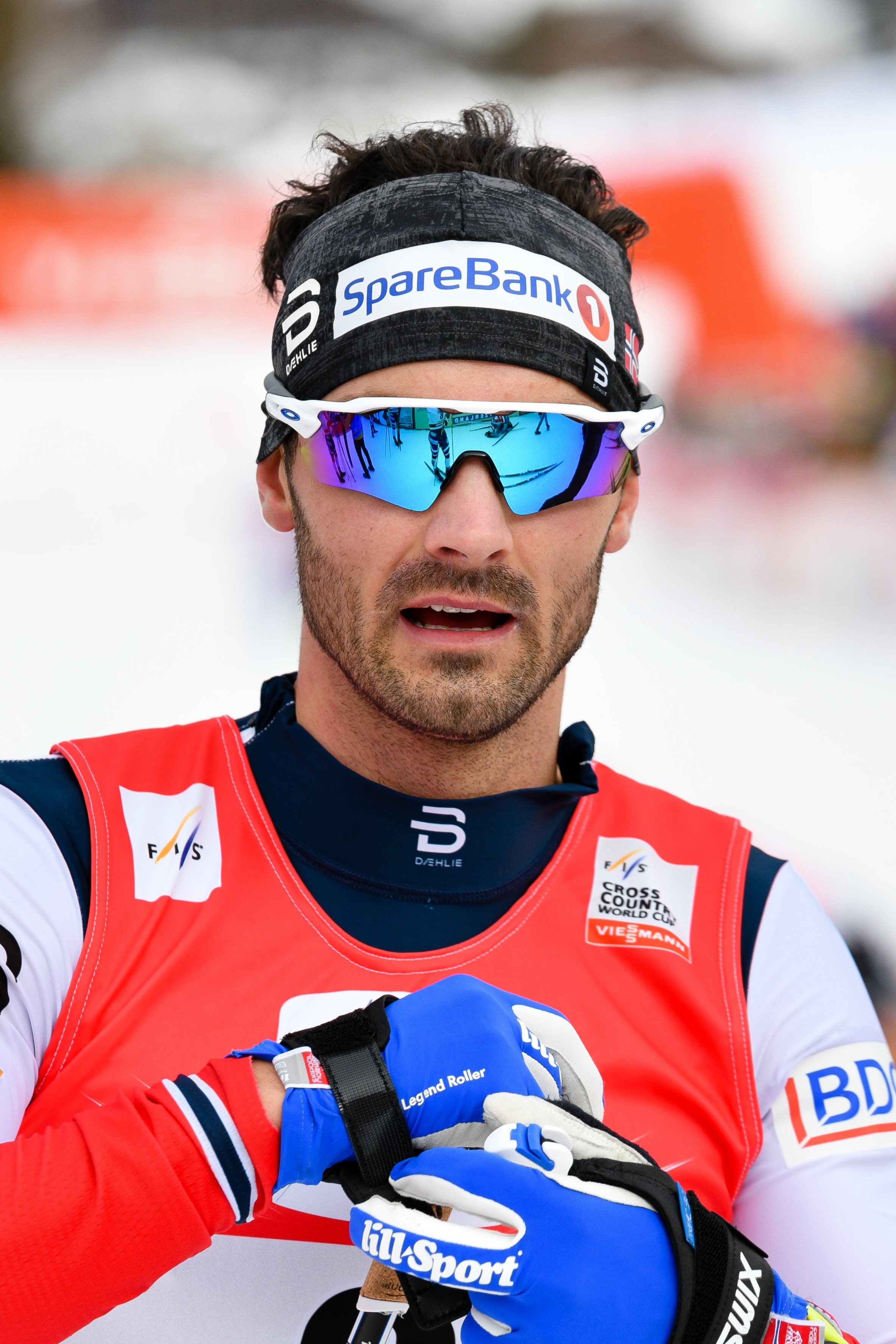 Seefeld-Triple 2018, third day January 28th. Picture shows HOLUND Hans Christer (NOR).